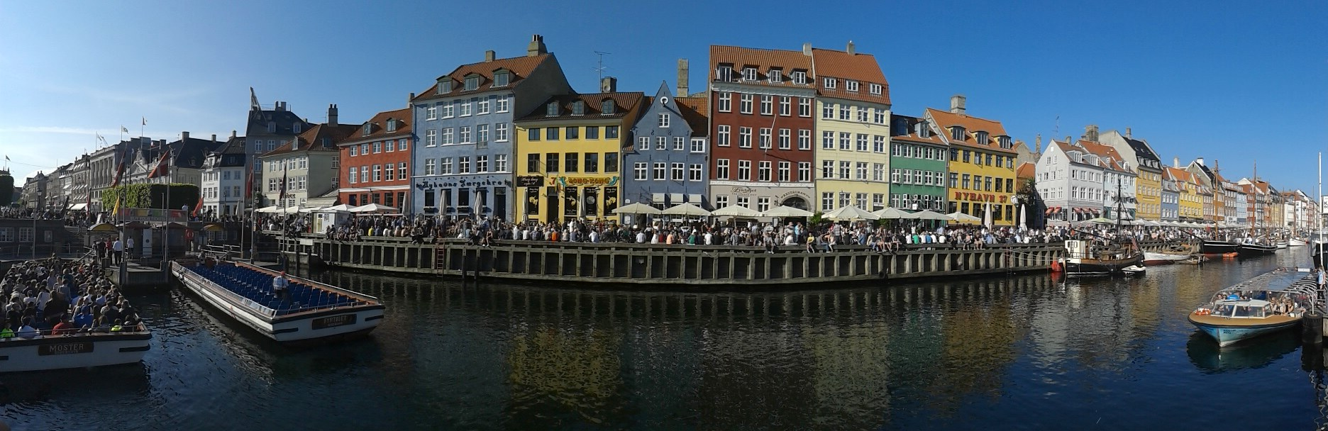 Panorama of Nyhavn, Copenhagen, Denmark